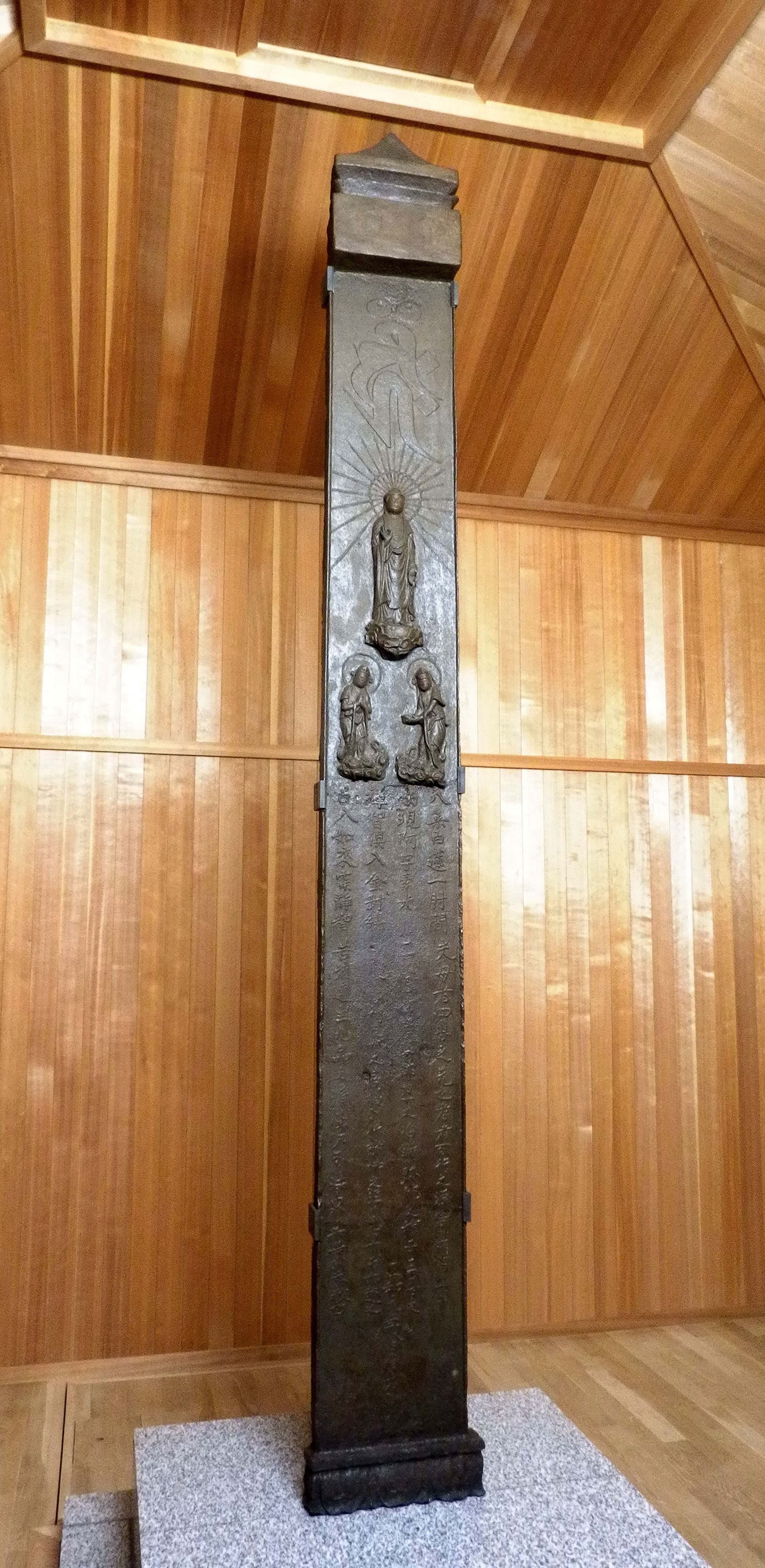 Seiganji Tetsutoba (Iron stupa in Utsunomiaya, Japan)